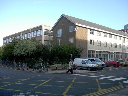 Self-made image of the clinical school building, University of Cambridge